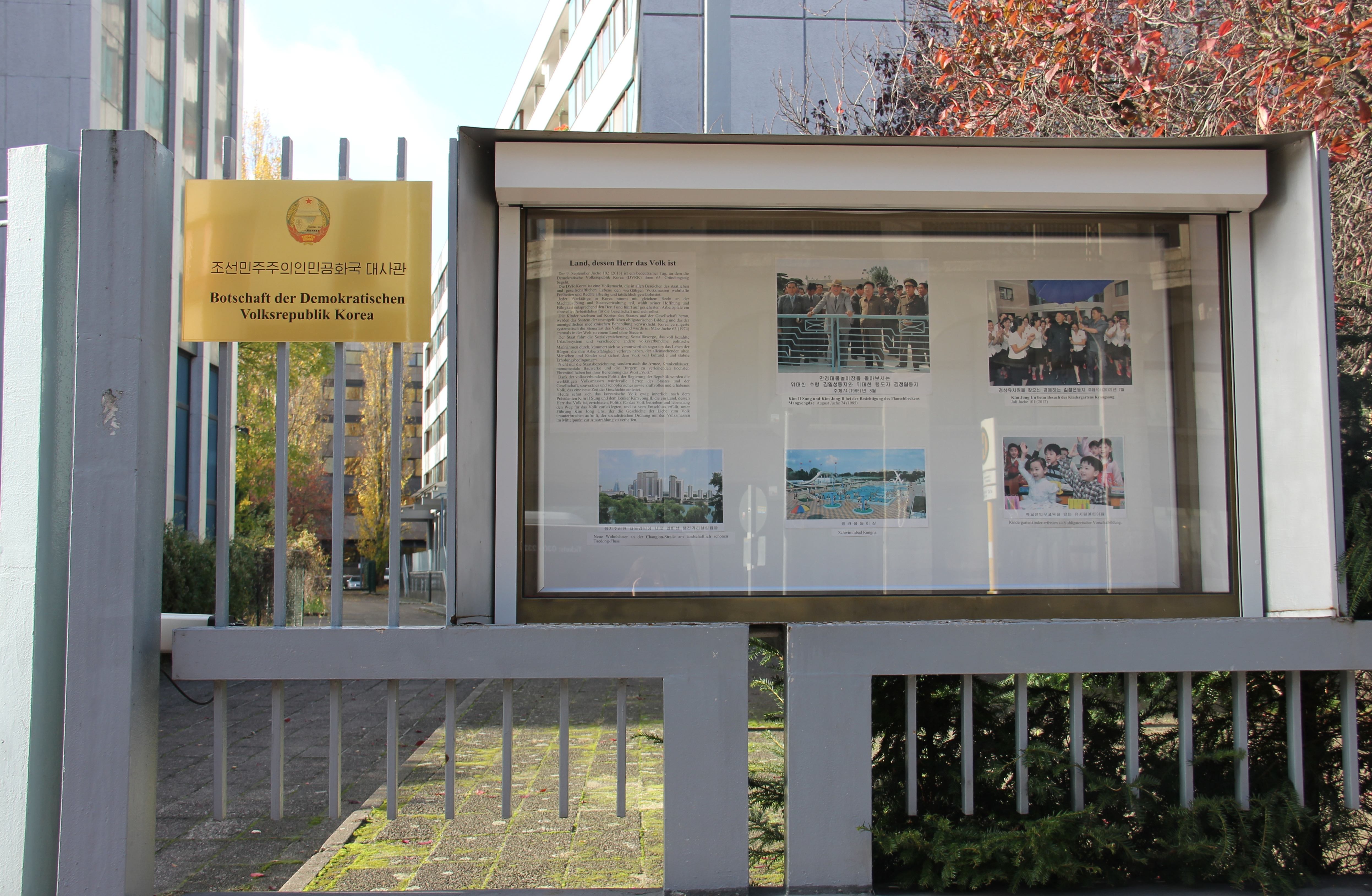 North Korean Embassy